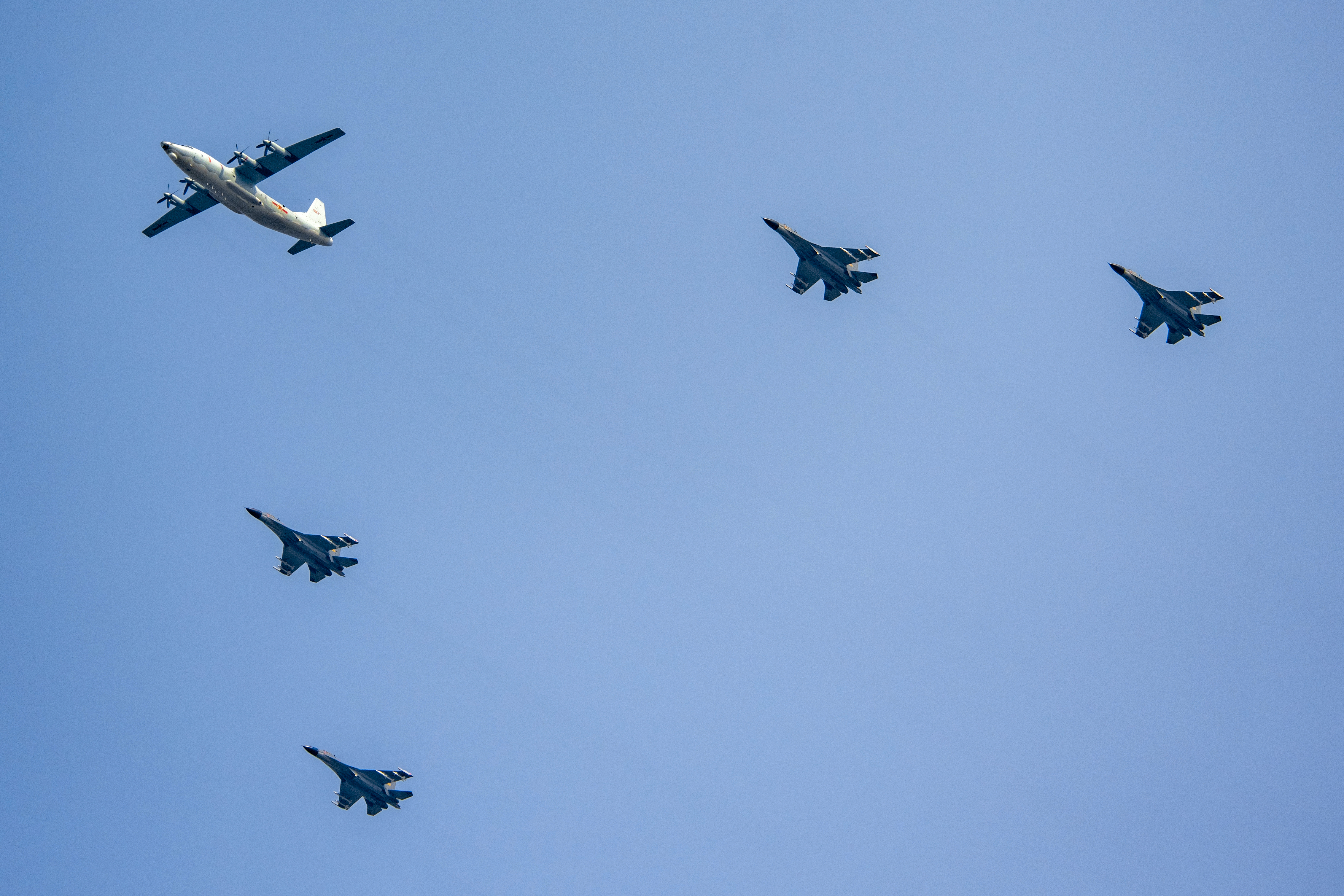 Command here.